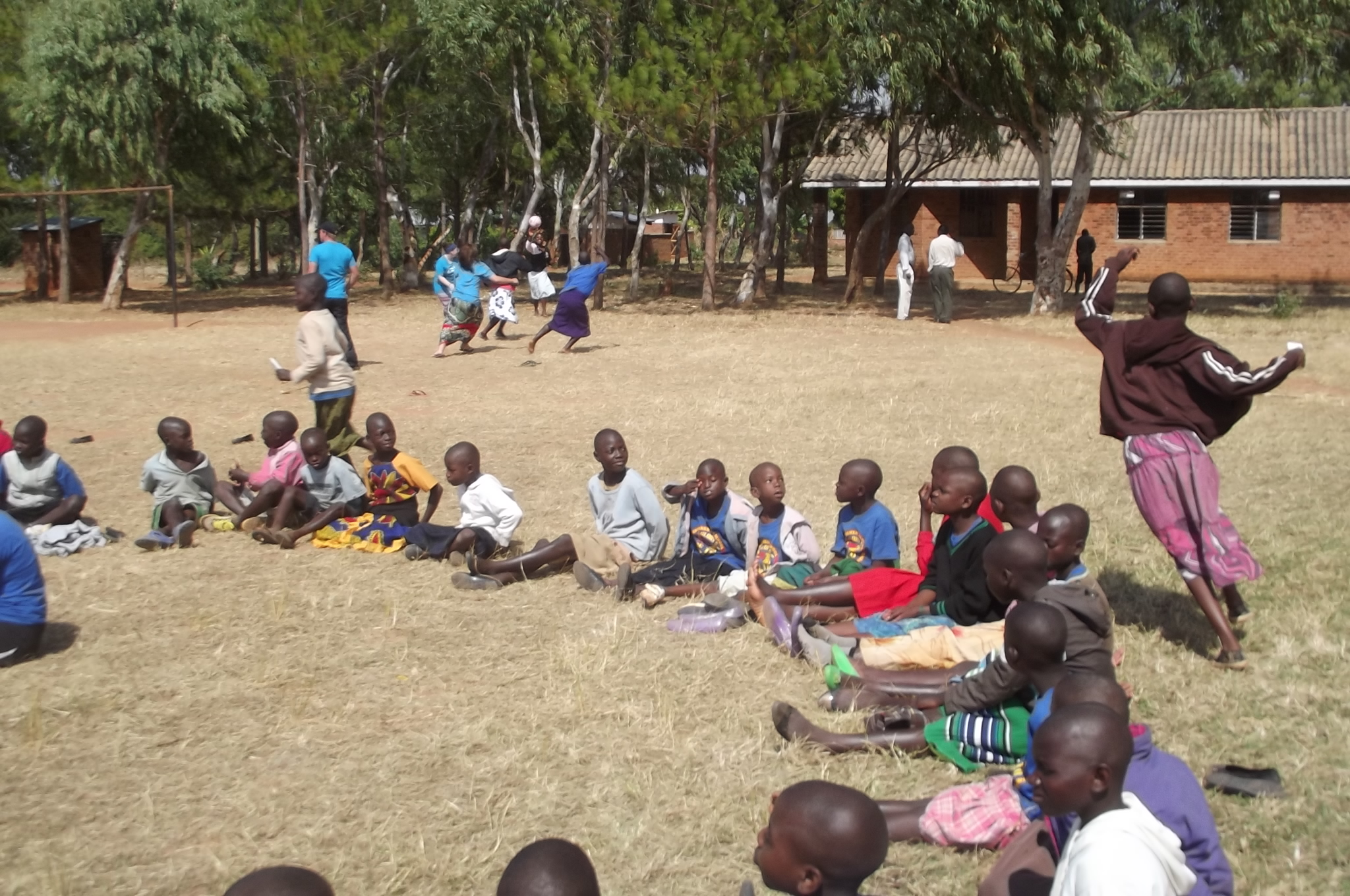 This is an image with the theme "Play" from: Malawi